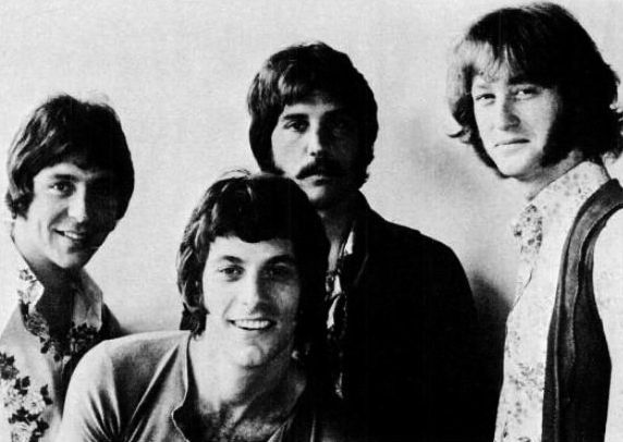 Trade ad for ABC / Dunhill Records featuring The Grass Roots. To better adapt it to his respective Wikipedia article, the ad was cropped and cleaned in a graphics editing program. The original can be viewed at the source below.